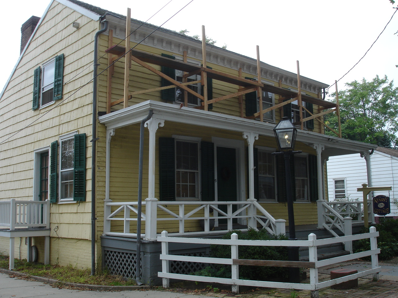 I took this photo of the Lawrence Kearny House myself on September 21, 2011